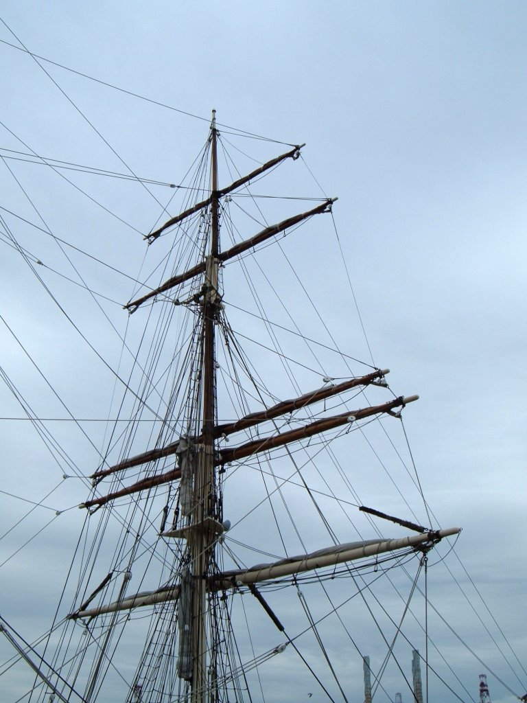 Foremast of the Elissa sailing barque, at port in Galveston, TX.